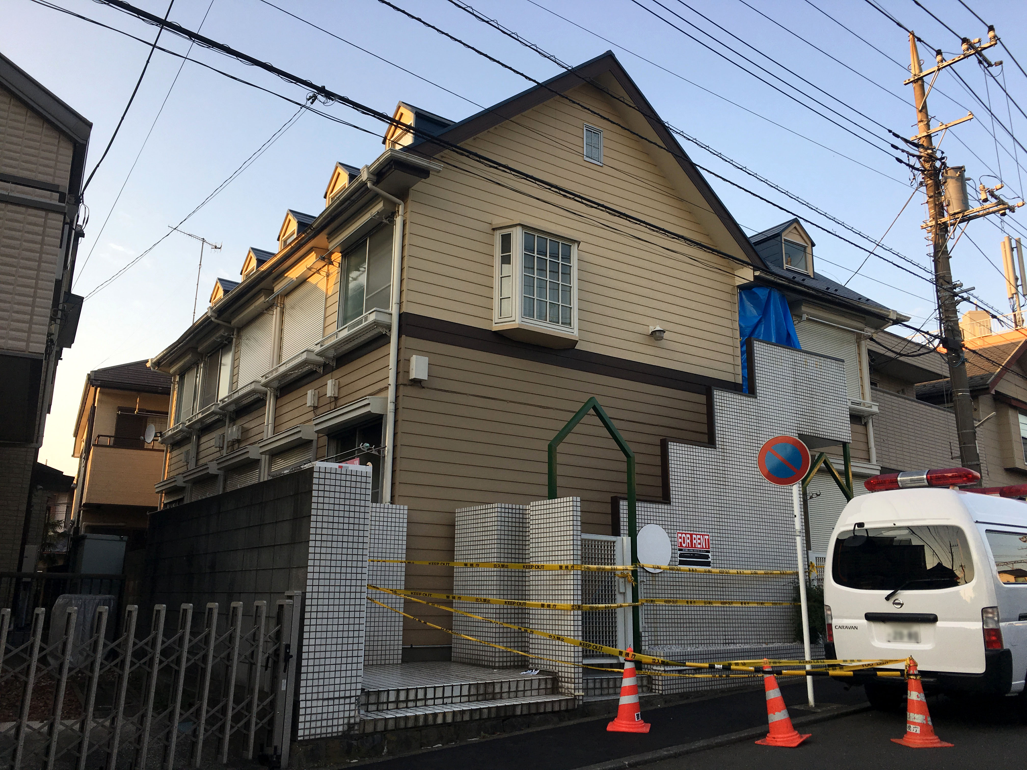 Murder scene of Zama Suicide Pact Slayings in 2017 (Zama, Japan)